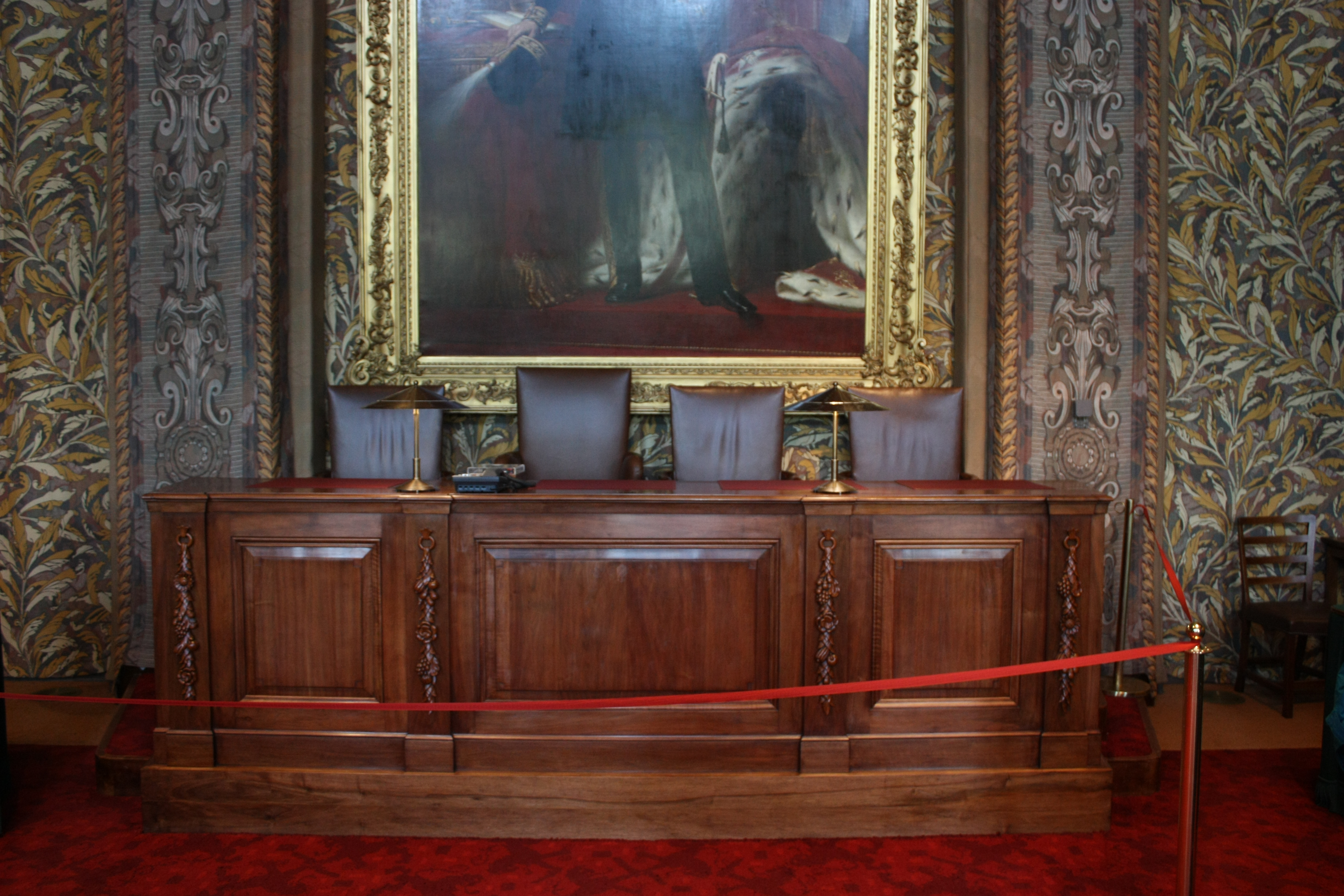 The seat of the President of the Senate